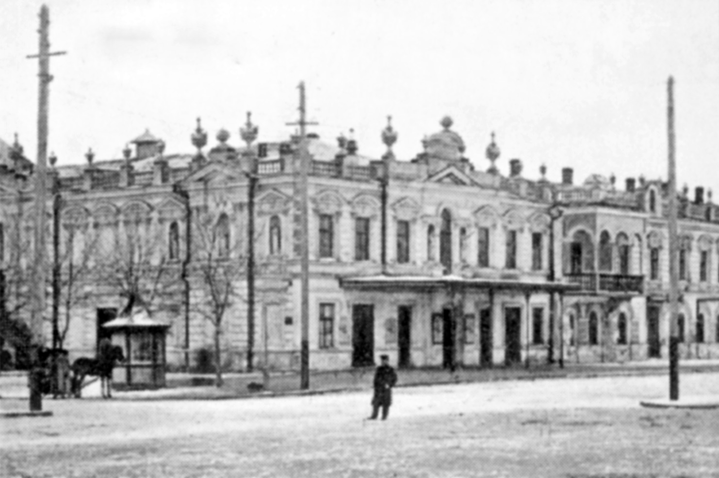 Old picture